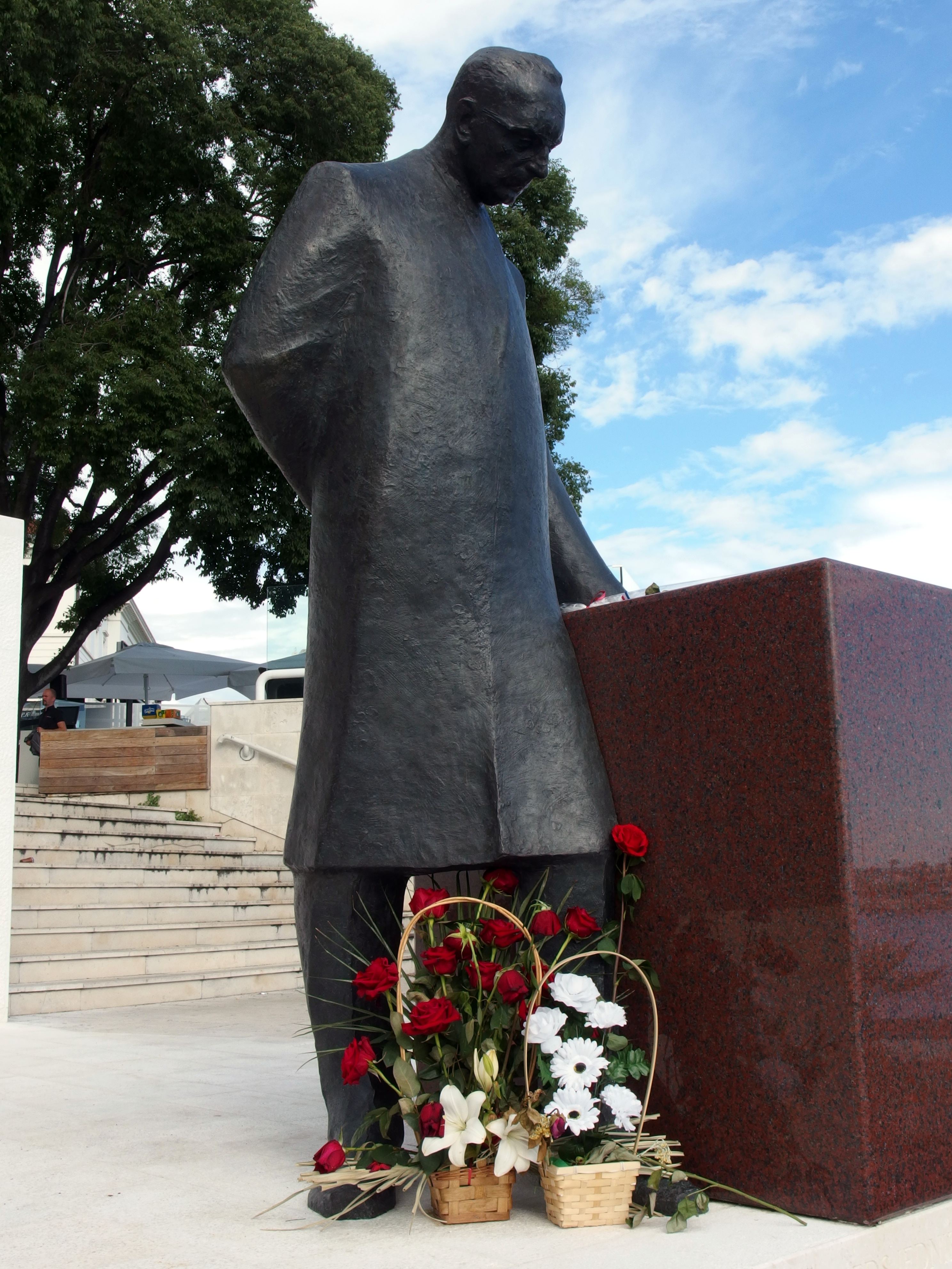 2013-06-05 in Split.